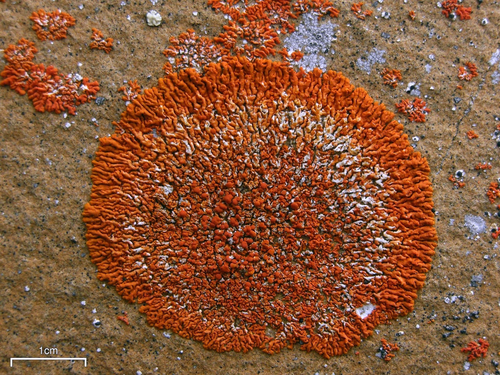 The lichen Xanthoria elegans (Link) Th. Fr. Specimen photographed in Mount Stearn, Wellmore Wilderness, Alberta, Canada. Notes: "on exposed sandstone in alpine".